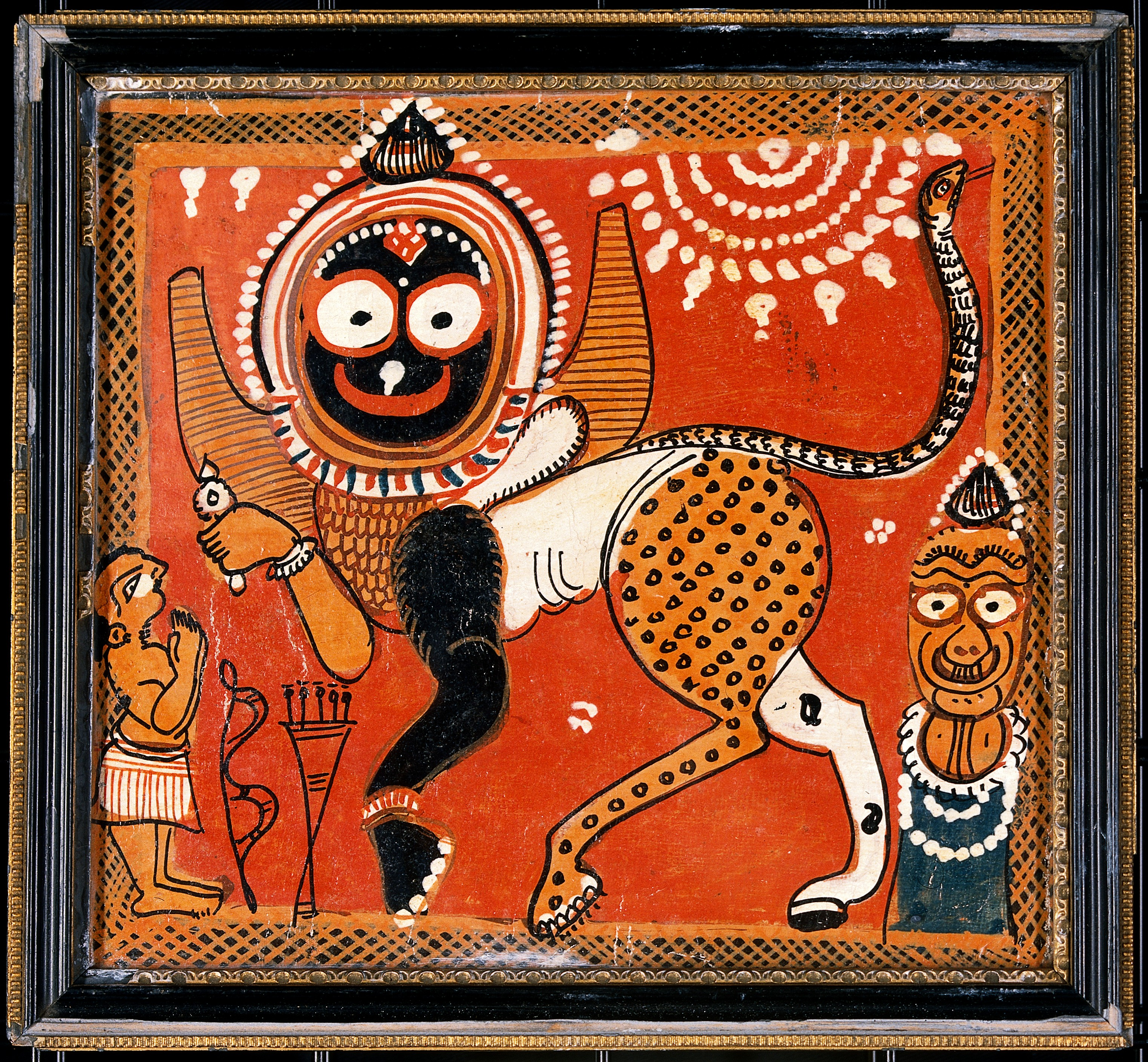 Jagannath, Lord of the Universe, as a monstrous beast, with a human worshipper and Subhadra. Iconographic Collections Keywords: Vishnu